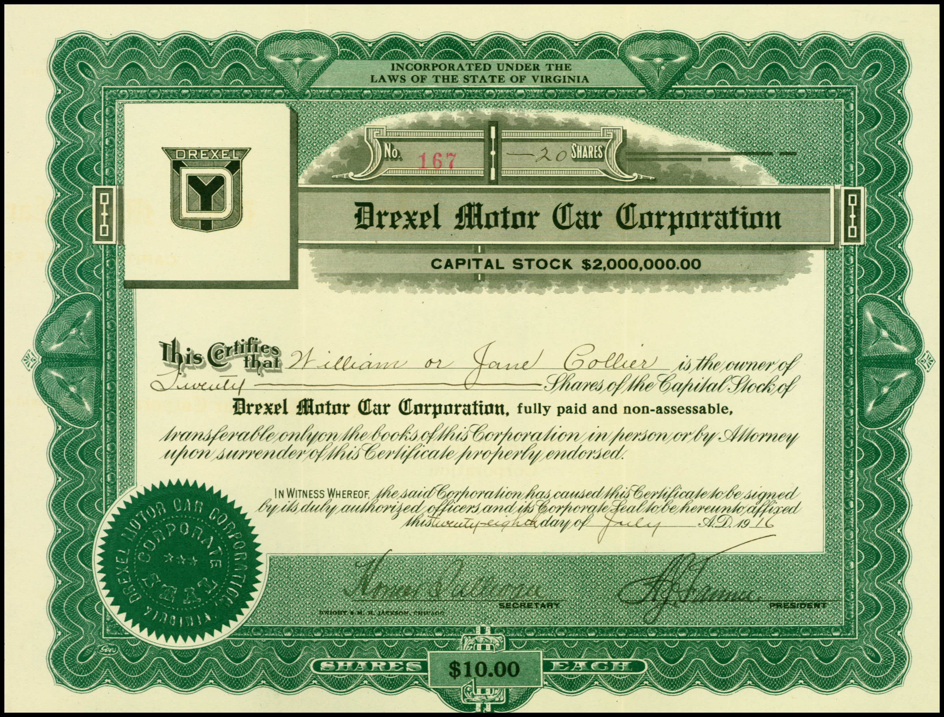 Share of the Drexel Motor Car Corporation, issued 28. July 1916